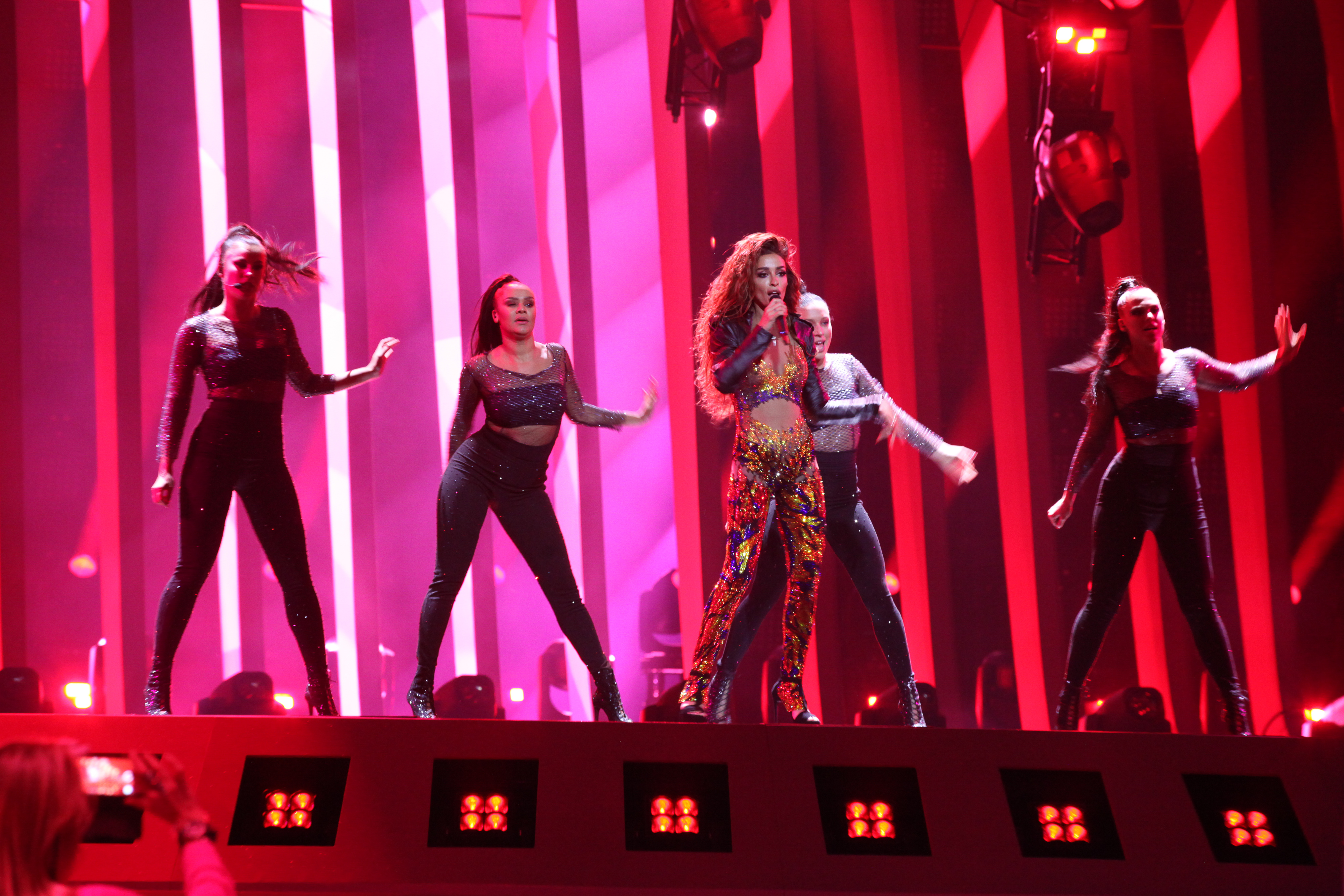 Eleni Foureira representing Cyprus with the song "Fuego" during a rehearsal before the grand final of the Eurovision Song Contest 2018 in Lisbon.